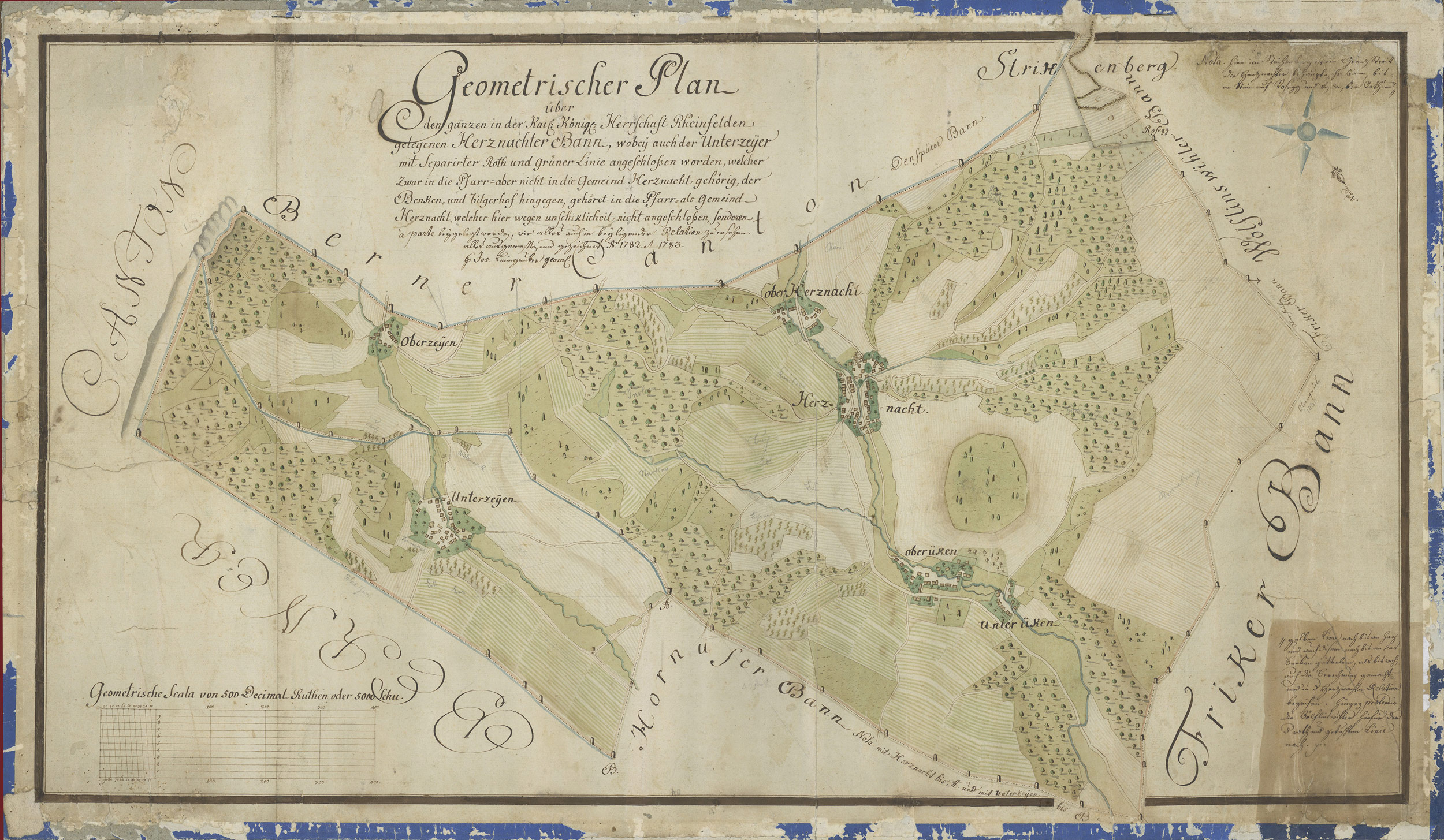 Geometric Map of Herznachter Bann within Herrschaft Rheinfelden in Austria-Hungary, present day Switzerland.